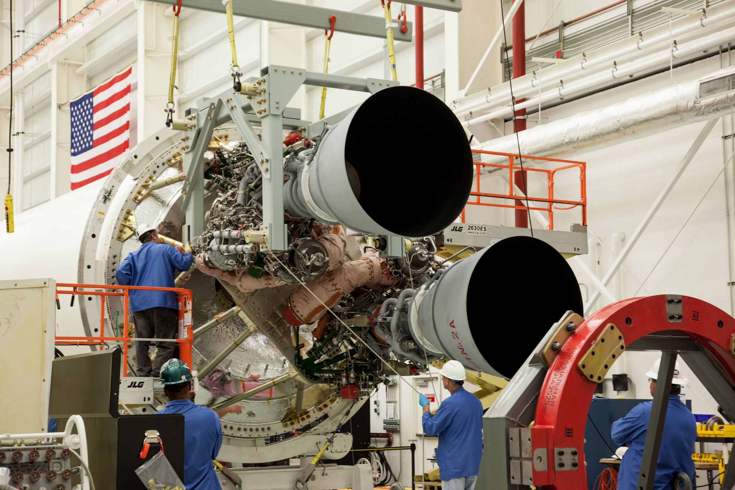 RD-181 engine that arrived in July is being integrated with the Antares first stage air frame at the Wallops Island, Virginia Horizontal Integration Facility (HIF). A “hot fire” test on Pad 0A is scheduled for late 2015 or early 2016.